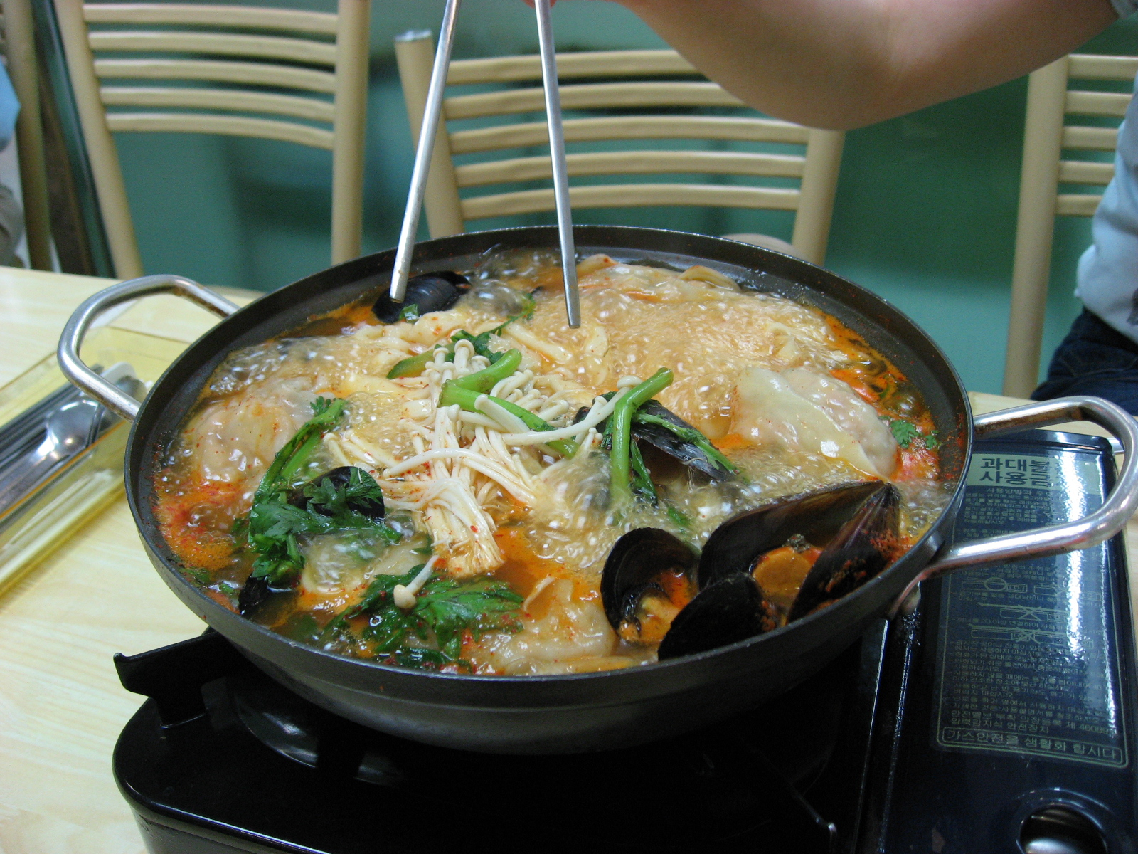 A pot of wang mandu jeongol (왕만두전골, Korean dumpling stew). This is my favourite food in Korea. Fresh noodles, fresh mandu (dumplings), fresh shellfish and quite a hot sauce...